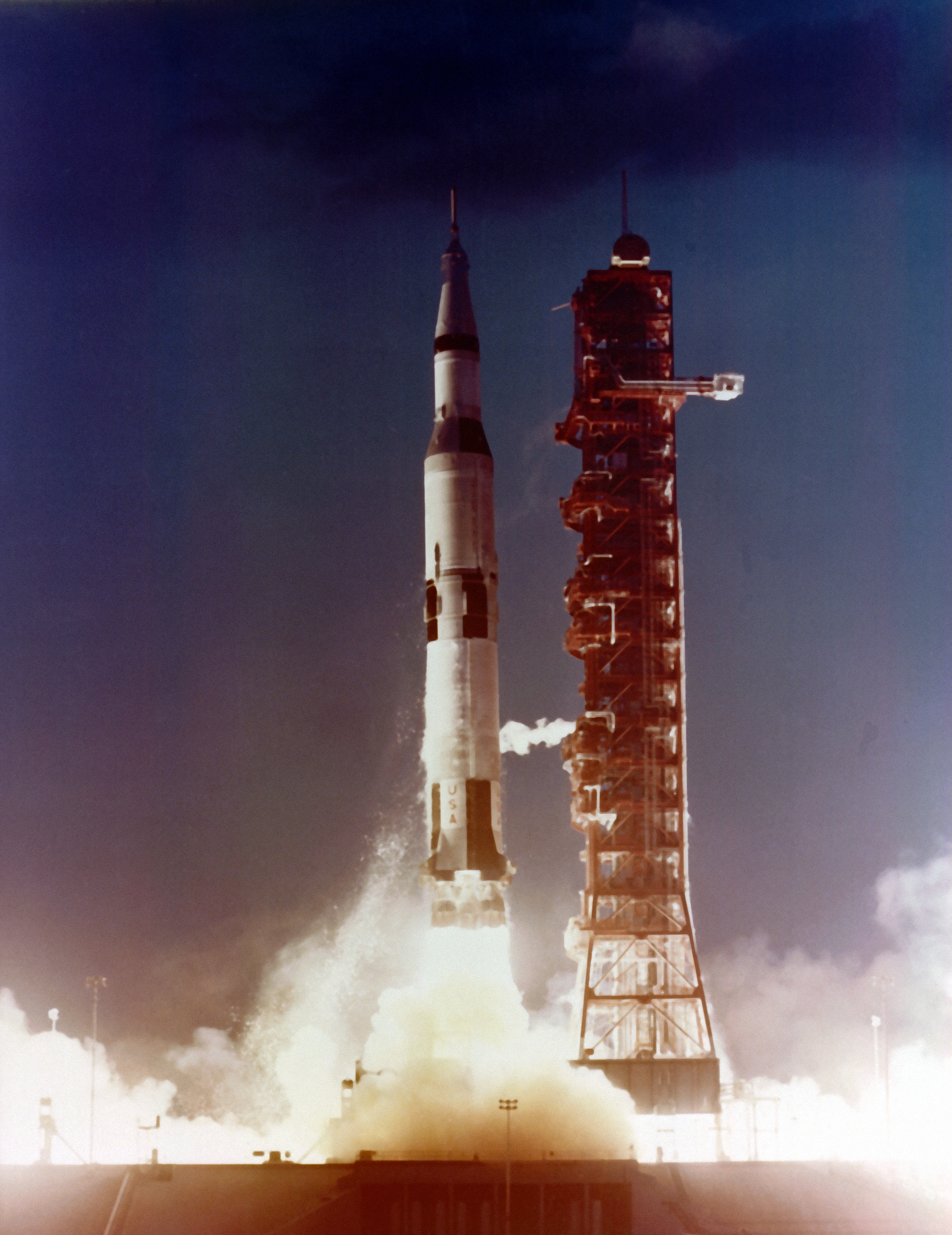 On November 9, 1967, Apollo 4, the first test flight of the Apollo/Saturn V space vehicle, was launched from Kennedy Space Center Launch Complex 39. This was an unmanned test flight intended to prove that the complex Saturn V rocket could perform its requirements. All three stages separated successfully and their engines performed as planned. The third stage also restarted in orbit, which was a requirement for lunar missions. At the end of the flight, the unmanned Apollo spacecraft reentered and proved that it could survive the intense heat generated during a high-speed return from the moon.